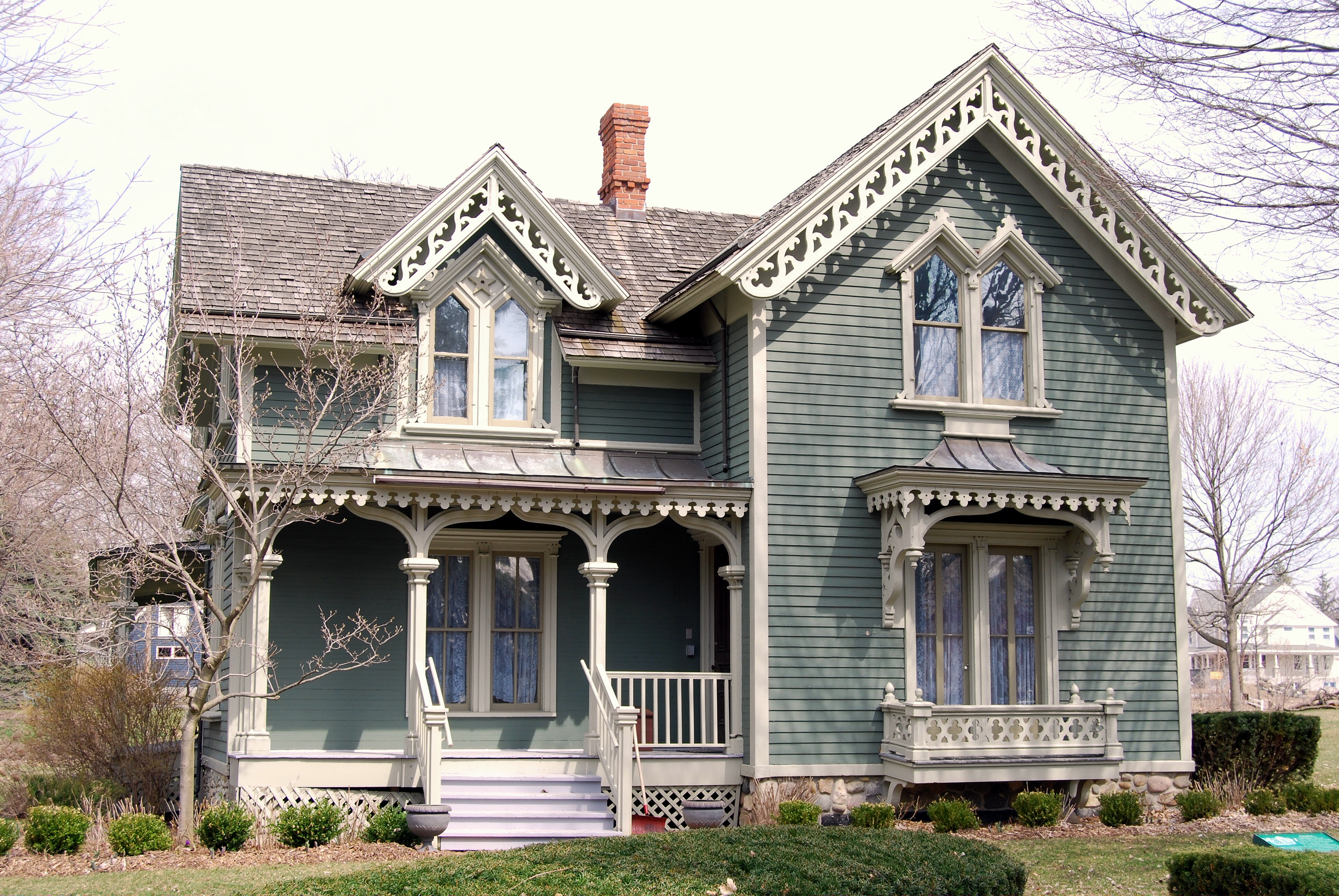 Victorian house — Mill Race Village, Northville, Michigan.